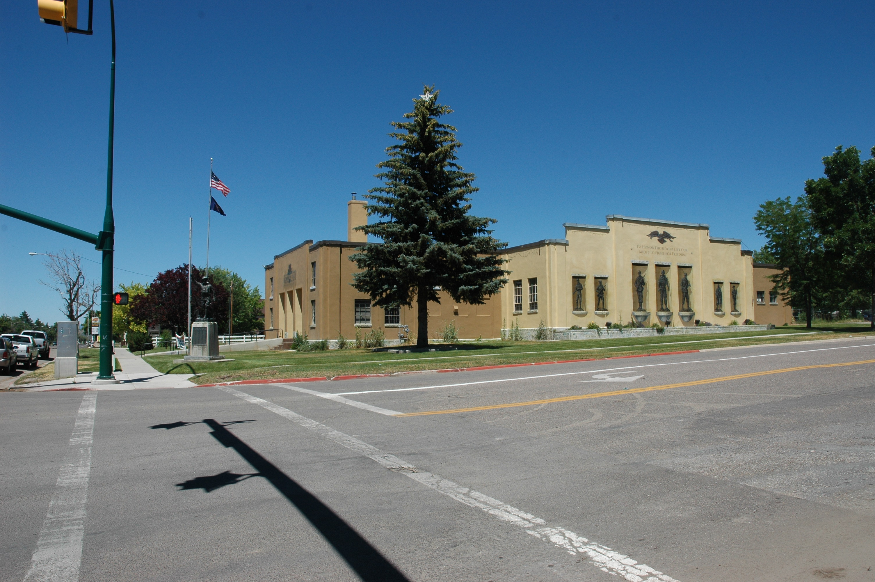 The Mount Pleasant National Guard Armory, a historic building in Mount Pleasant, Utah, United States.